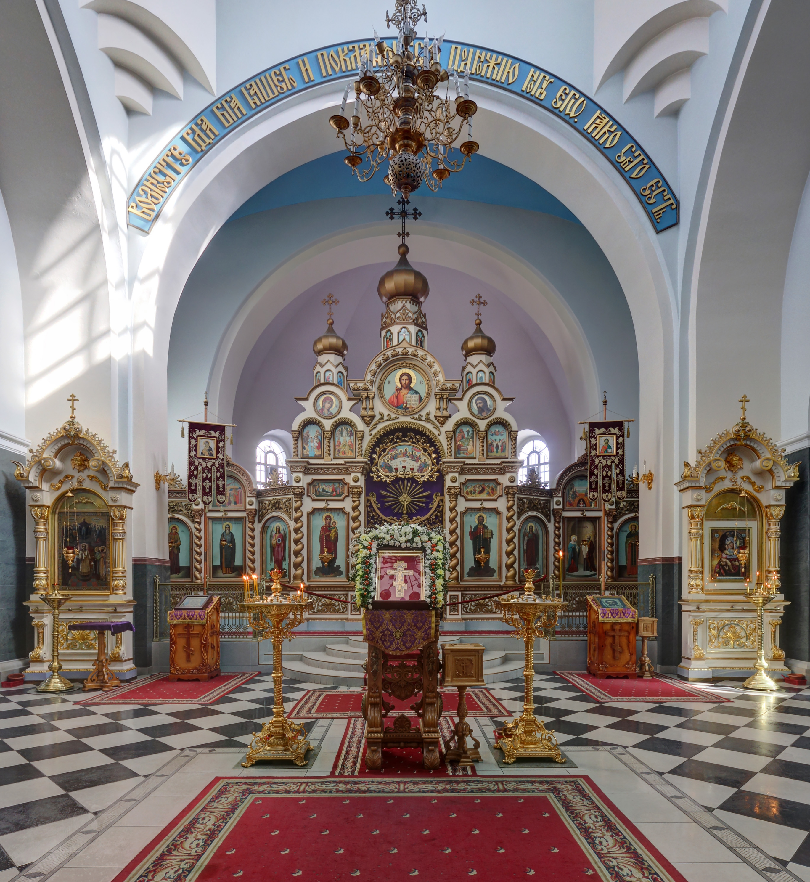 St. Simeon and St. Ann Orthodox Cathedral Iconostasis. Jelgava, Latvia